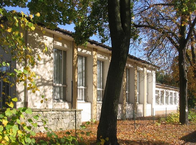 Sporthaus Ziegenhals in Niederlehme, Ernst Thälmann memorial place. The village Niederlehme is a part of the town Königs Wusterhausen in the district Dahme-Spreewald, state Brandenburg, Germany.